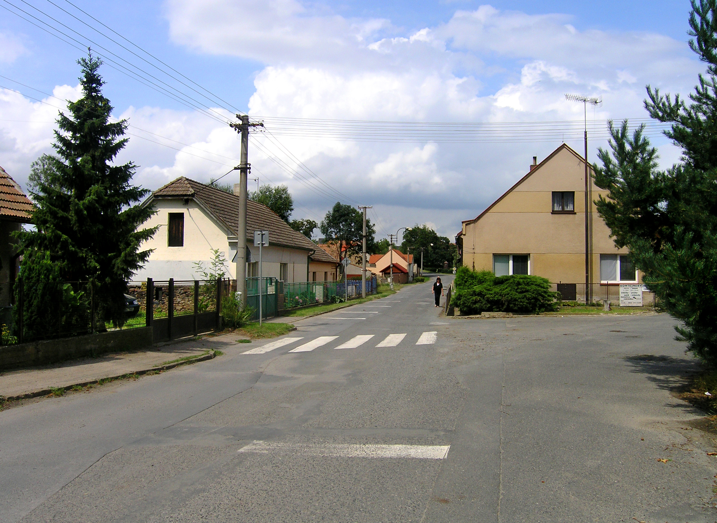 Main street in Čakovičky, Czech Republic